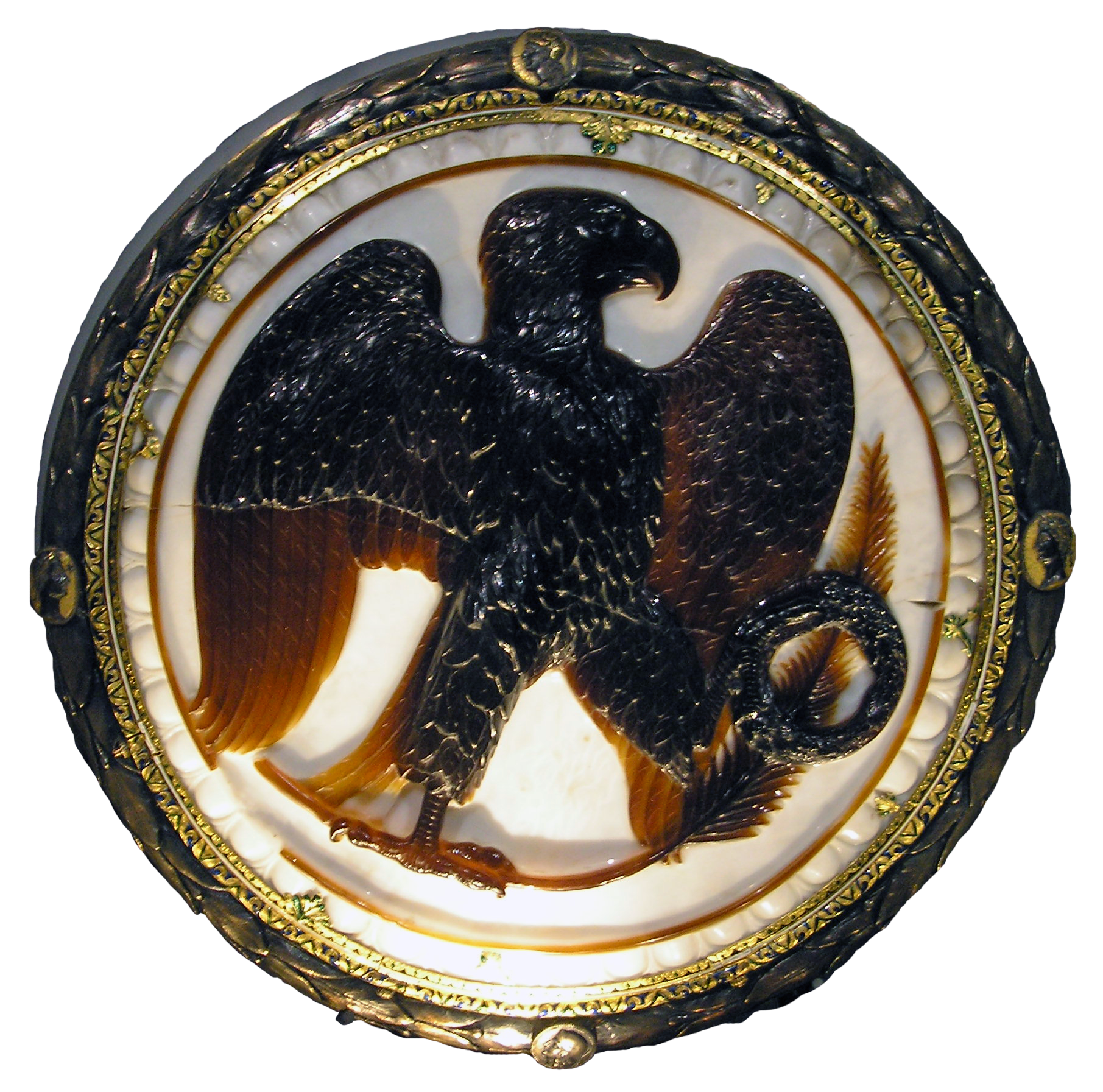 Eagle Cameo. Collection of Greek and Roman Antiquities in the Kunsthistorisches Museum, Vienna. Depicts an eagle, the symbol of the Roman Emperors. This cameo was a symbol of imperial power. Roman 27 B. C. Two-layered onyx; Diam. 22 cm. Setting: silver, gilded; Milan, 3rd quater of 16th century. AS Inv. No. IX 26.